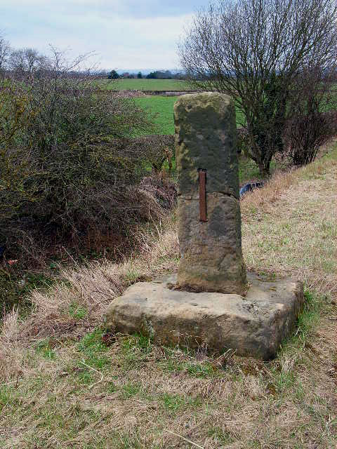 The White Cross, Crakehall, perhaps marked the site of Bedale cattle market, probably medieval